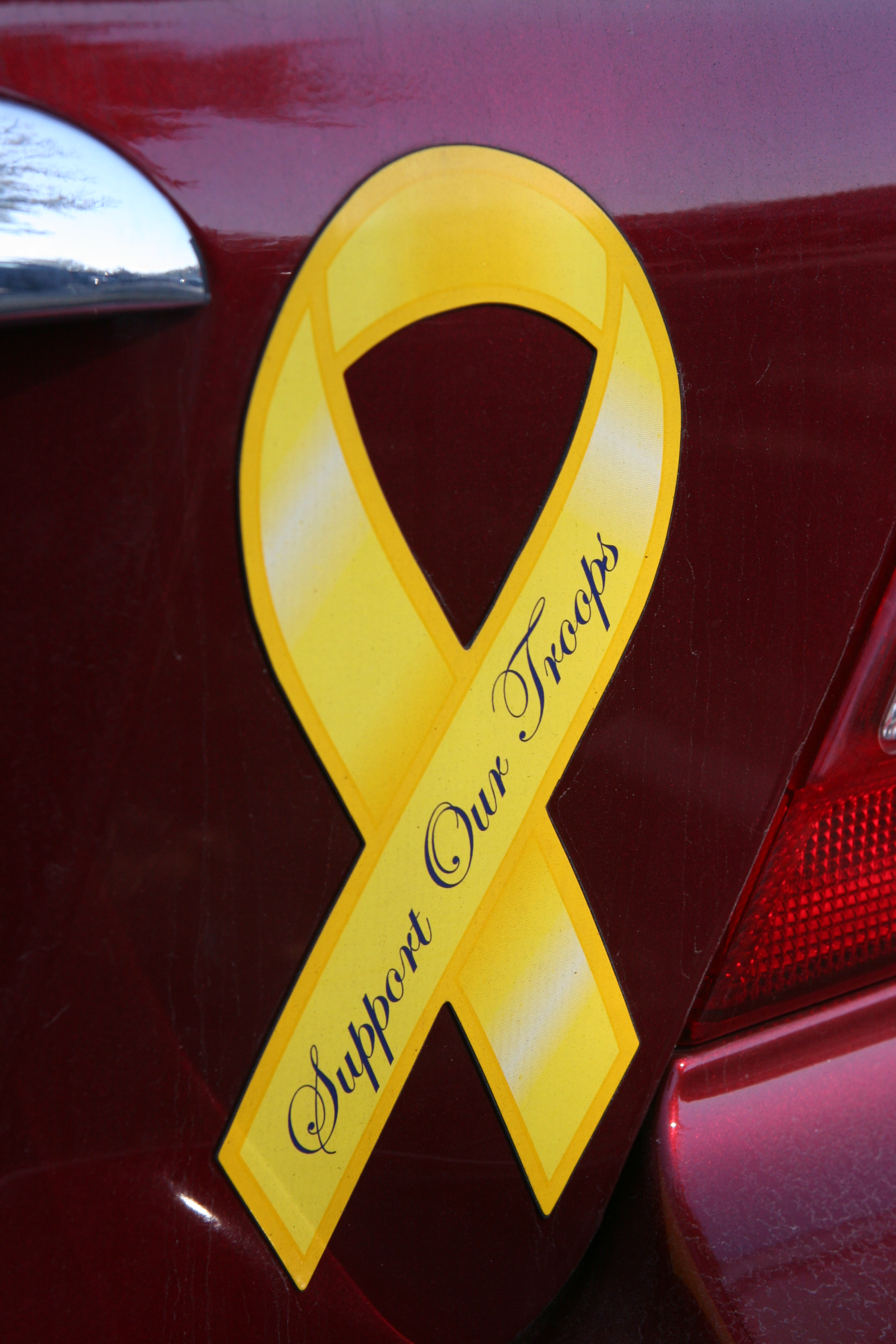 MARINE CORPS BASE CAMP LEJEUNE, N.C.--A "yellow ribbon" sticker near the tail light of this vehicle shows support for the American cause overseas. Similar bumper stickers, t-shirts, coffee mugs, and other merchandise is popping up around the country to support the deeper cause behind the trend.